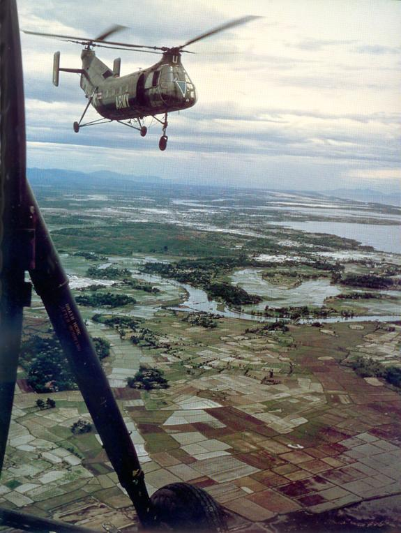 US army photo of some shawnees over viet nam rice paddies